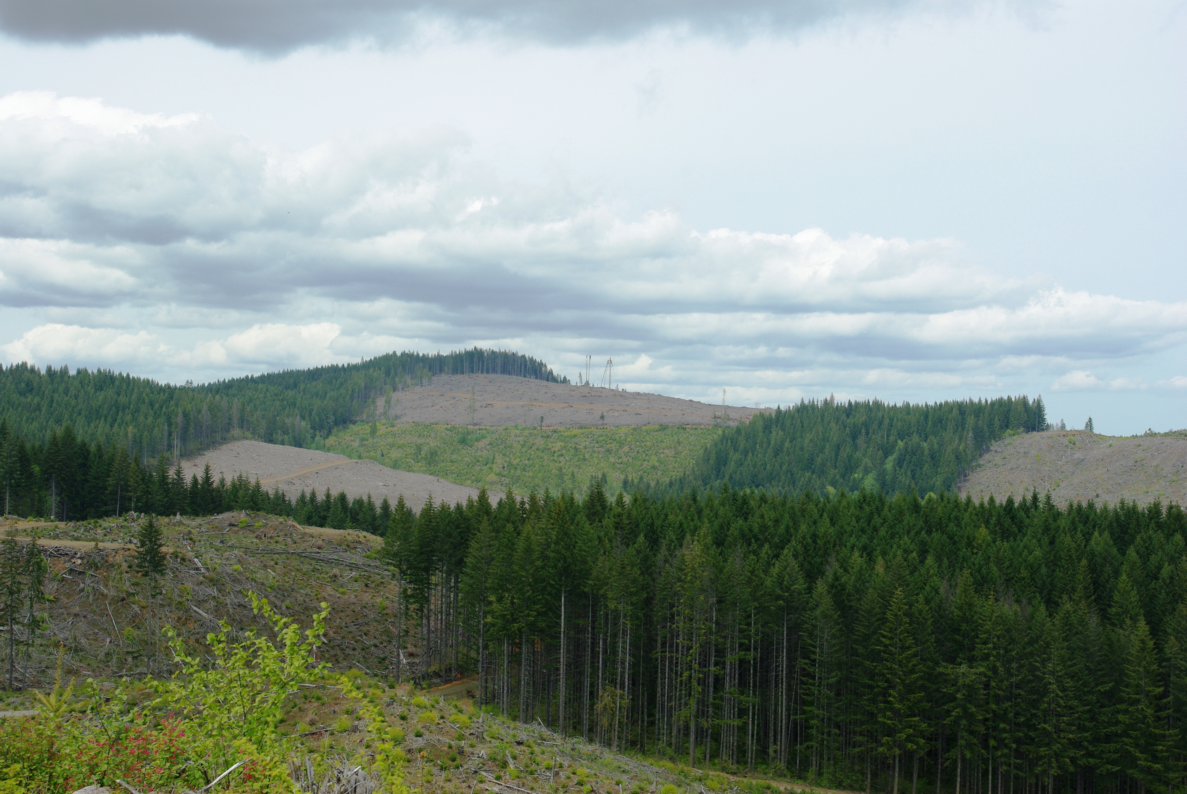 Clearcut areas in the Northern Oregon Coast Range on the border of Washington and Yamhill counties.